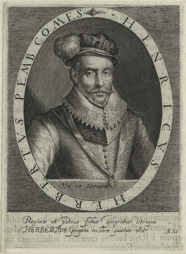 Henry Herbert, 2nd Earl of Pembroke (1534?-1601), Courtier and statesman